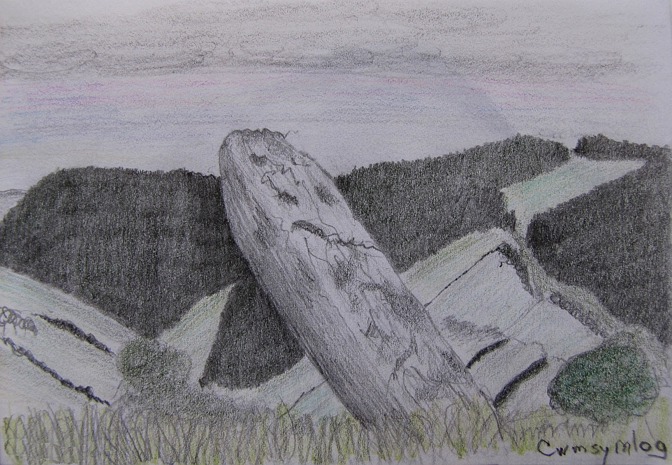 Standing Stone in Cwmsymlog, Pant y Garreg Hir. Drawn by Anneke Ritman. Other information